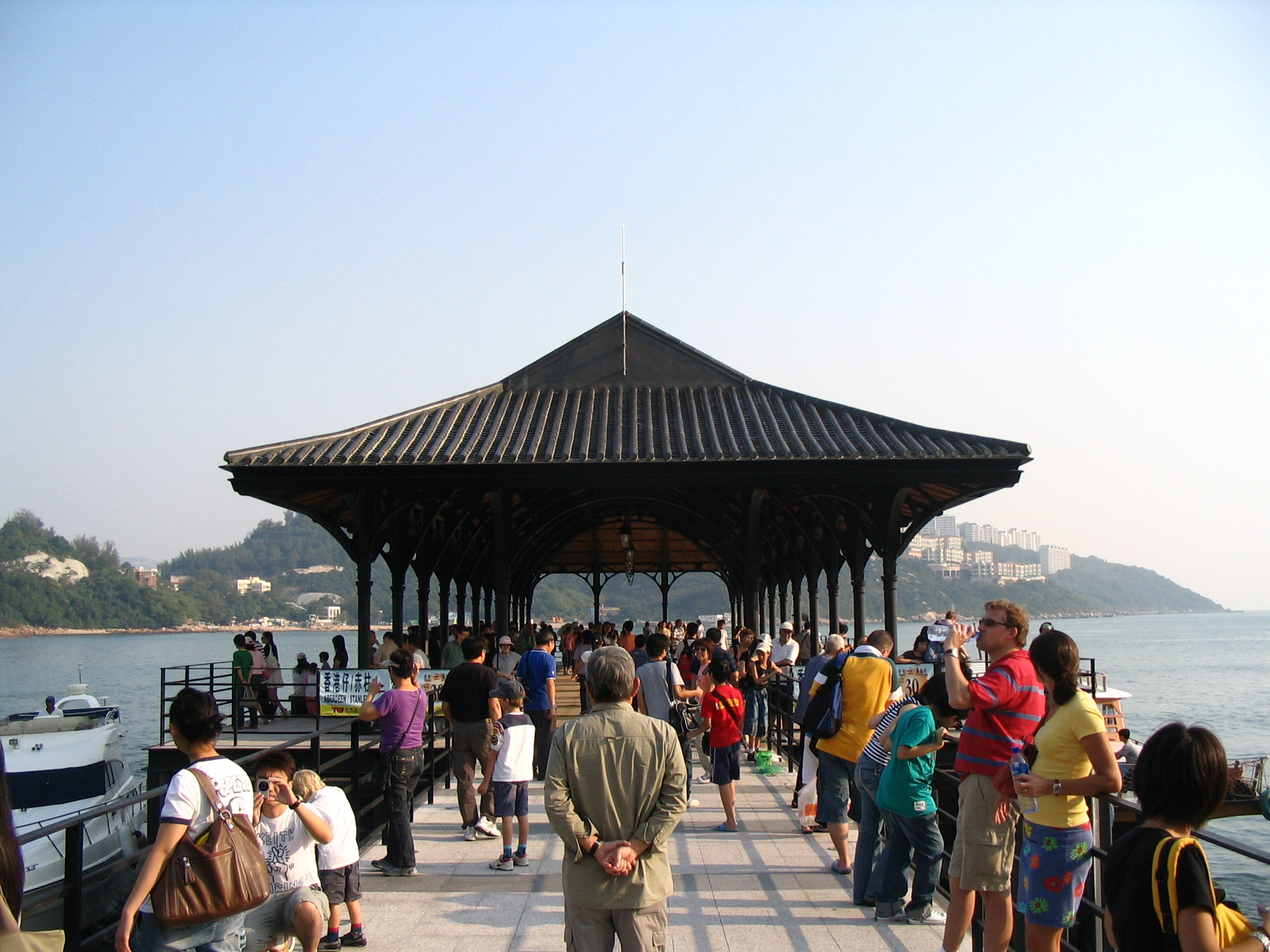 Photo of Blake Pier at Stanley